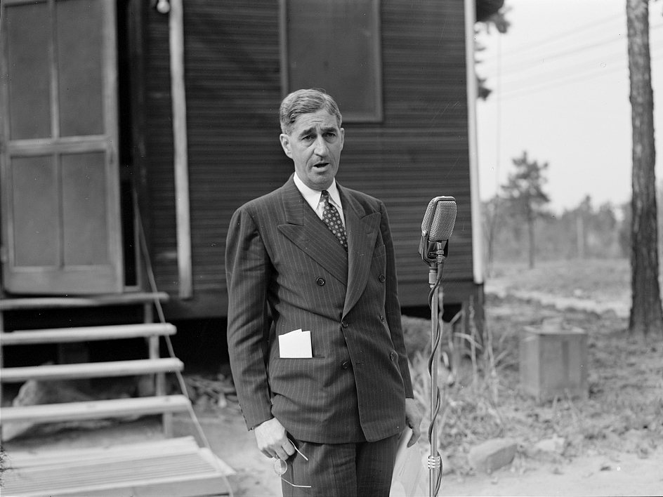 Alonzo Dillard Folger (1888 - 1941), a Democratic U.S Congressman from North Carolina